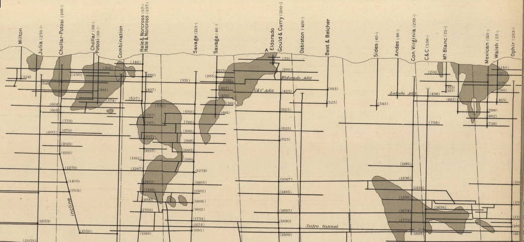 ComstockShafts